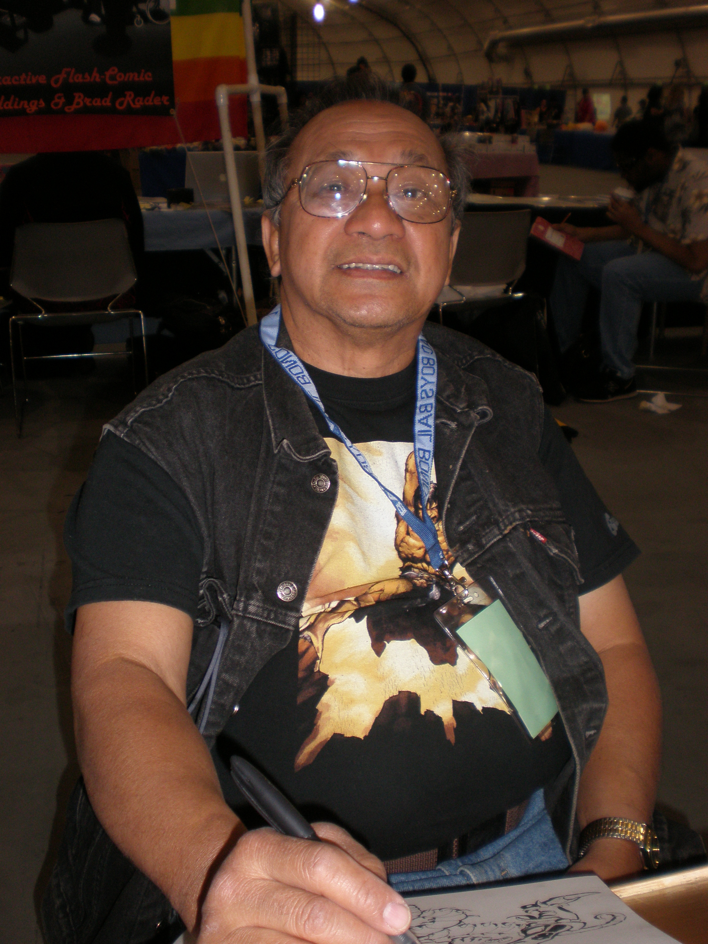 Ernie Chan at Super-Con 2009 in San Jose, California.